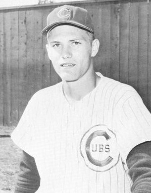 Professional baseball player Ken Hubbs